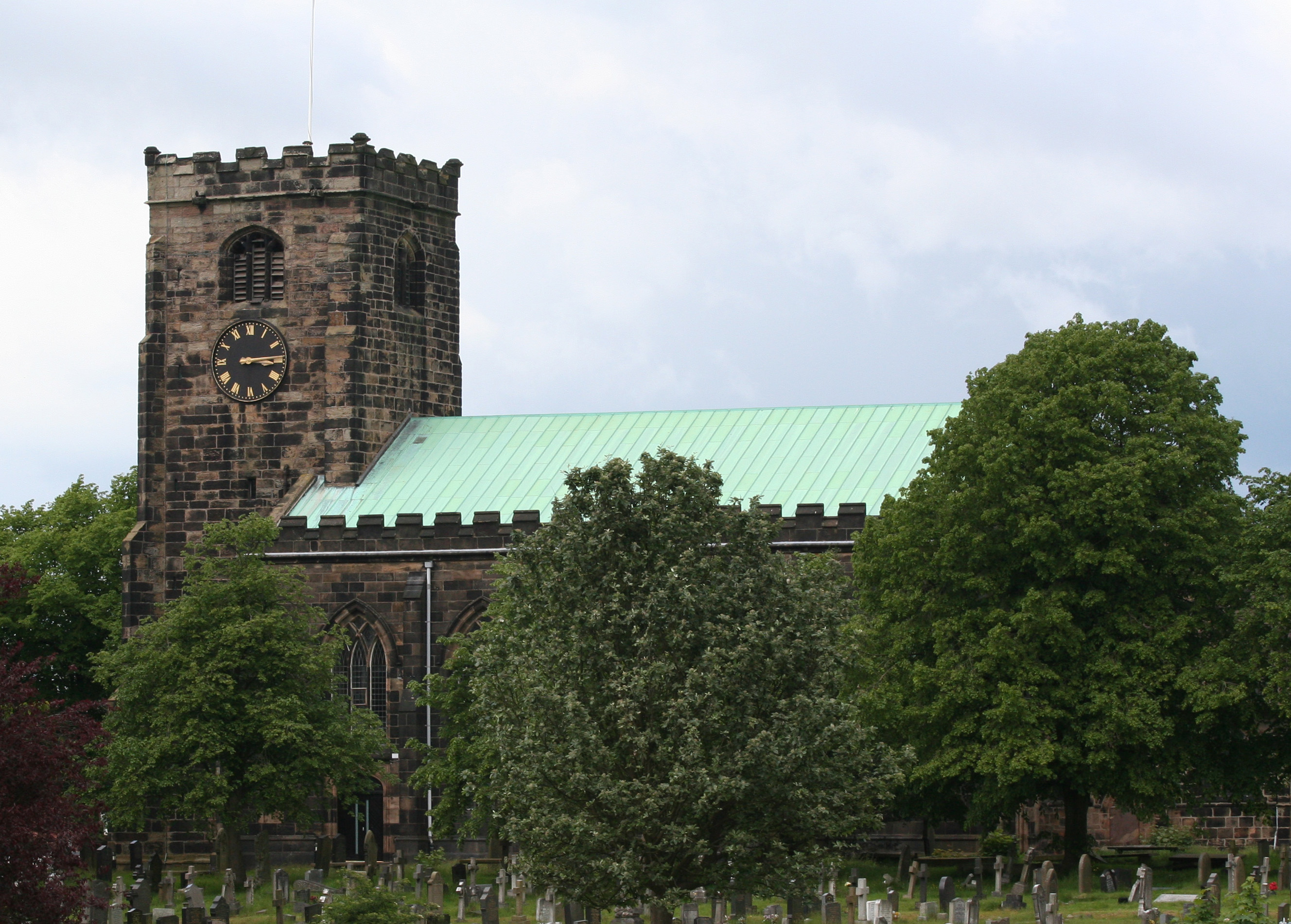 St. Andrews Parish Church, Leyland.